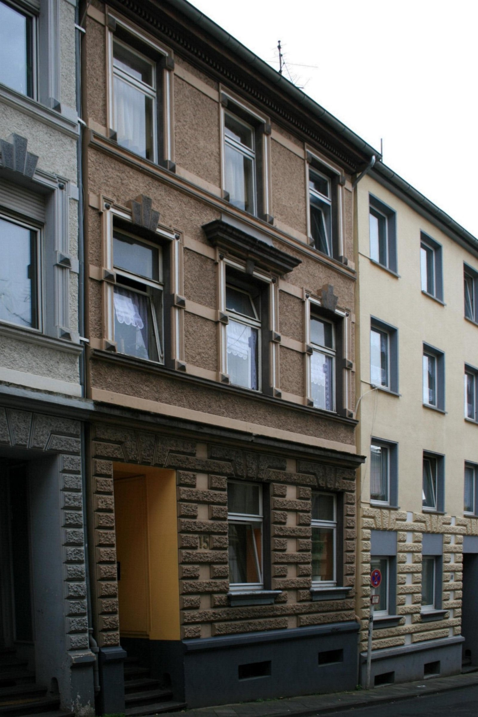 Cultural heritage monument No. L 021 in Mönchengladbach